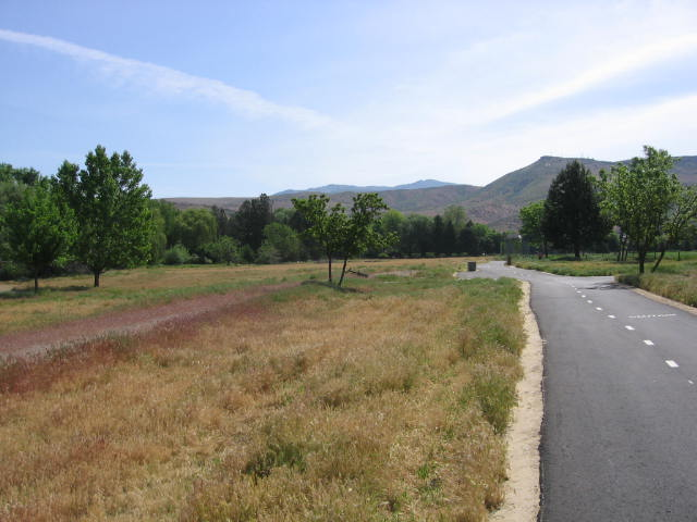 An open area of the Boise Greenbelt near NE 2.1 with a view of Table Rock in the background, approaching Warm Springs Gold Club and Municipal Park.